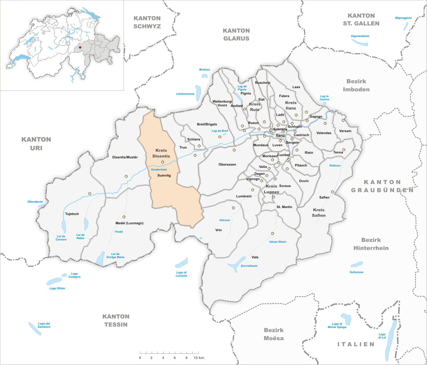 Municipality Sumvitg